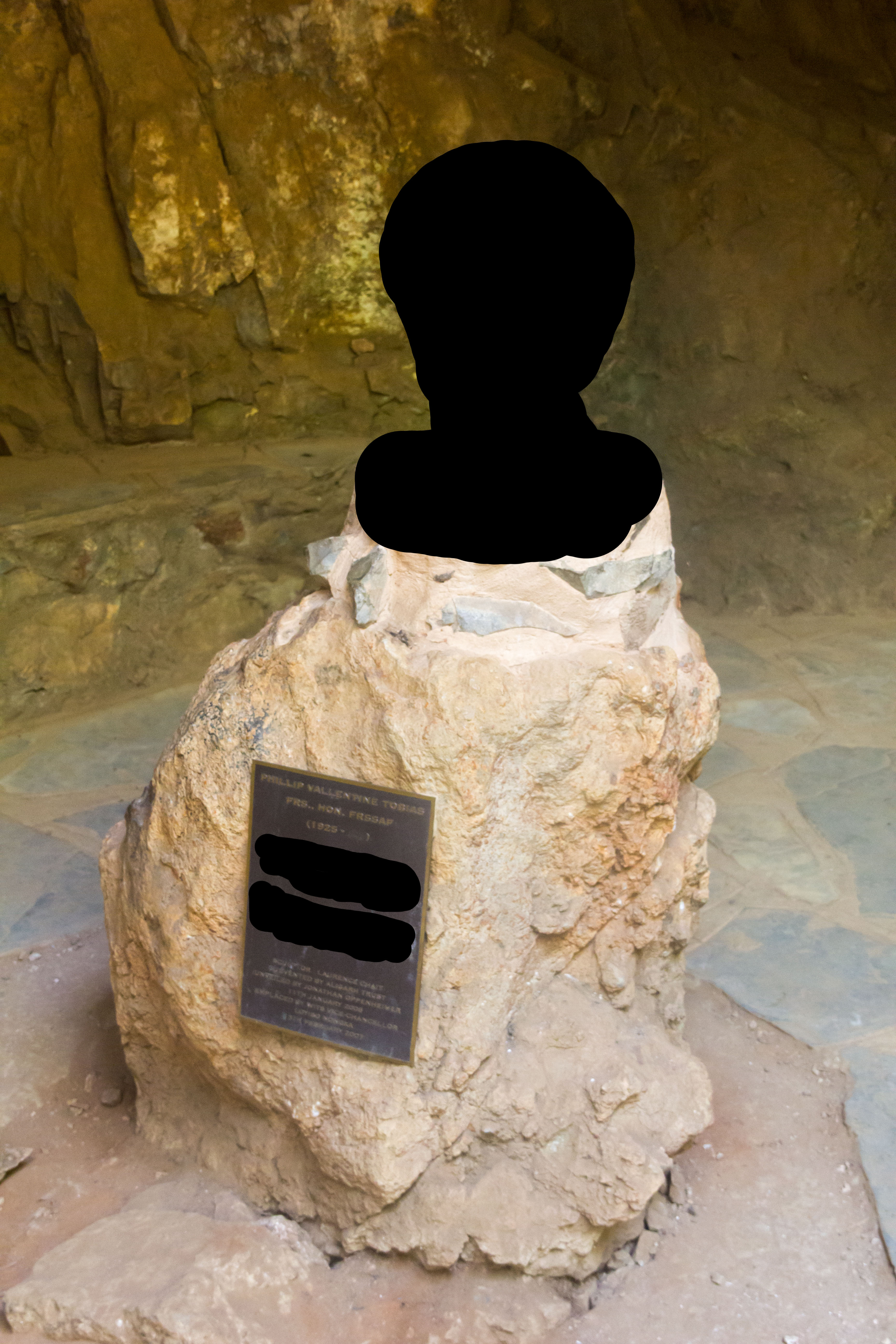 Bust of Phillip Vallentine Tobias (1925-) in the Sterkfontein caves.